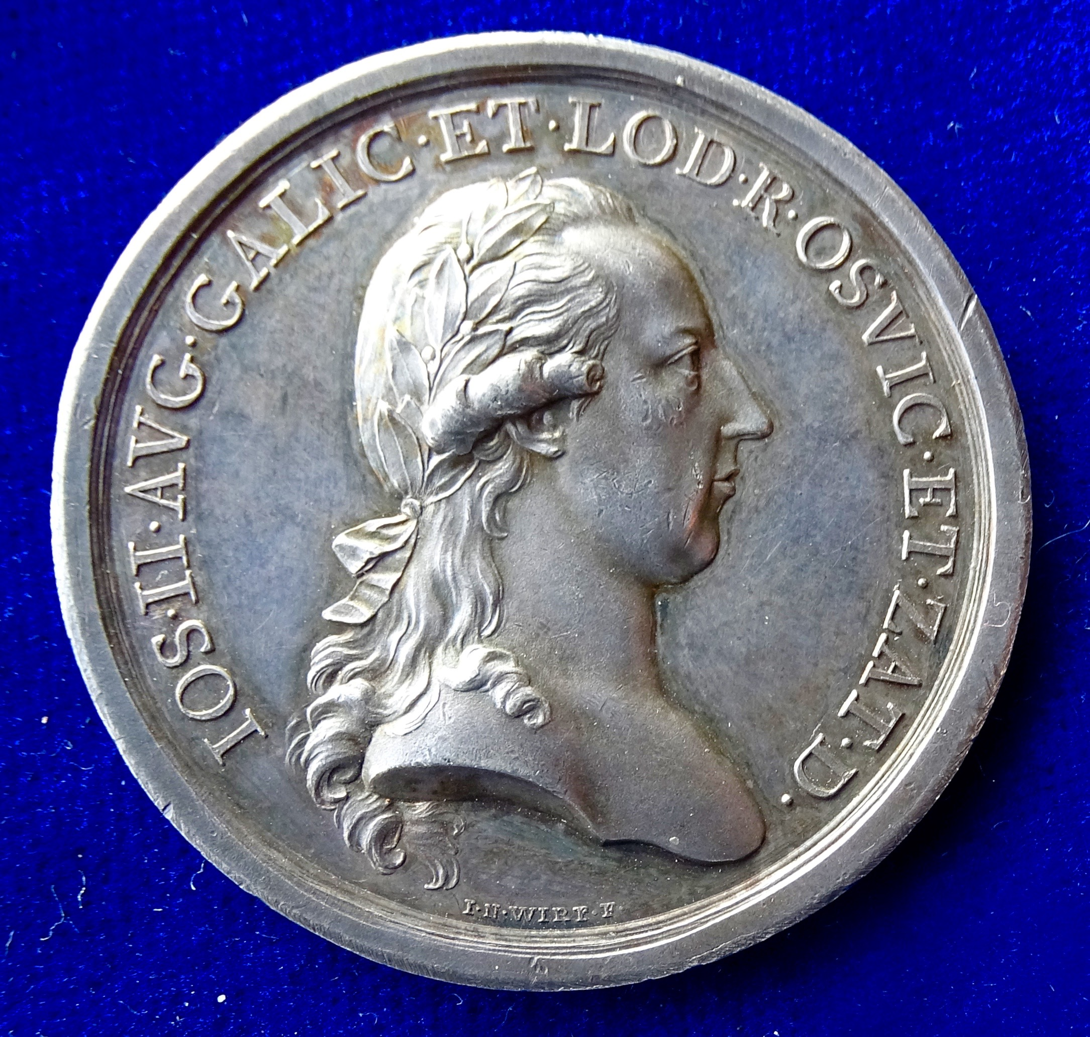 In 1772 with the partition of the Polish-Lithuanian Commonwealth, the south-eastern part of the former Polish-Lithuanian Commonwealth was awarded to the Habsburg Empress Maria-Theresa. In 1782 a parliament was constituted by emperor Joseph II. Known as Galicia and Lodomeria, it became the largest, most populous, and northernmost province of the Austrian Empire until the dissolution of that monarchy at the end of World War I in 1918, when it ceased to exist as a geographic entity. Silver medallion, d = 43 mm. 26.23 g Ag. Joseph II, Holy Roman Emperor, 1764 - 1790 Head r., around: "IOS. II. AUG. ET. LOD. R. OSVIC. ET. ZAT. D."/ The personification of Galicia r. shaking hands with a Roman lawyer r. Curved above: "CONVENTV. ORDIN. PERPETVO. IN. GALIZIA. ET. LOD. CONSTITVTO." In exergue: "MDCCLXXXII". Slg Julius 2779; Forrer VI, p.567. Condition: EXTREMELY FINE+, beautiful old patina.